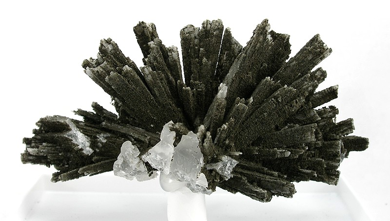 Chamosite, Laumontite, Quartz Locality: Iraí, Alto Uruguai region, Rio Grande do Sul, South Region, Brazil (Locality at ) Size: small cabinet, 7.5 x 3.5 x 3.5 cm Quartz xls pseudo after Laumontite , and Delessite This unusual pseudo features a diverging, half moon spray of dark gray, laumontite crystals which has been totally replaced by quartz colored brown by inclusions of (i am told) delessite. The crystals average 3.0 cm in length. It is overall very elegant and interesting, and is complete on both sides and very 3-dimensional. I have seen some of these clusters of similar style labelled as pseudo after anhydrite but the color was different, and the robustness and weight slightly different, so I am inclined to believe this identification after laumontite to be valid.